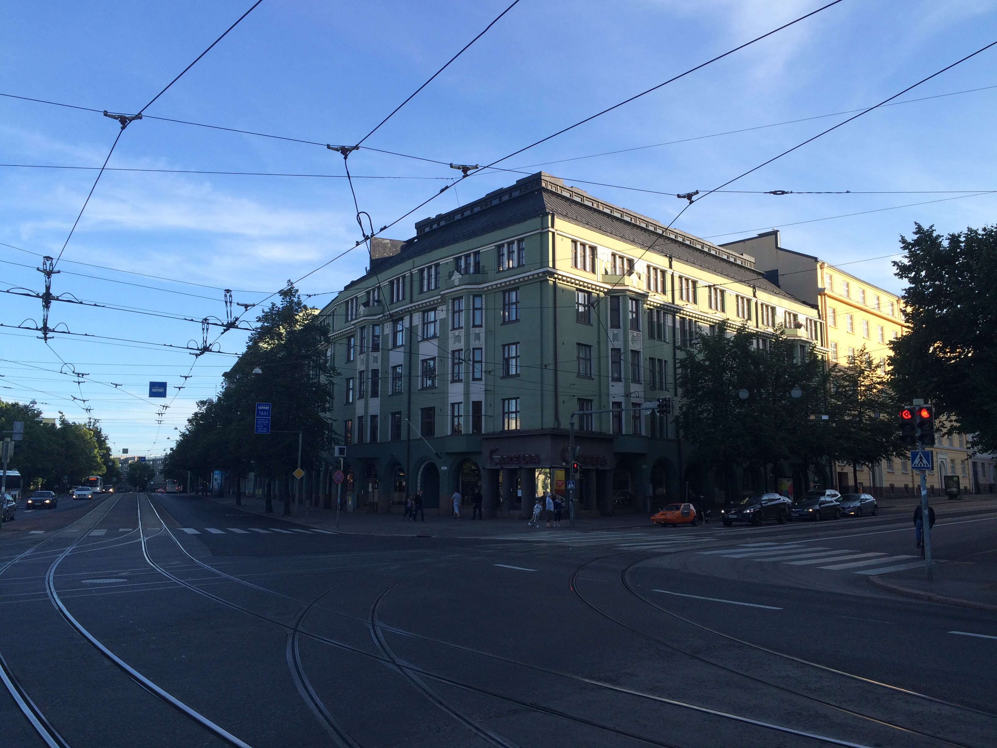 House in the corner of Mannerheimintie and Runeberginkatu streets, Helsinki (Mannerheimintie 56 – Runeberginkatu 69). The building was designed by Leuto A. Pajunen and J. Holvikivi, and completed in 1912.